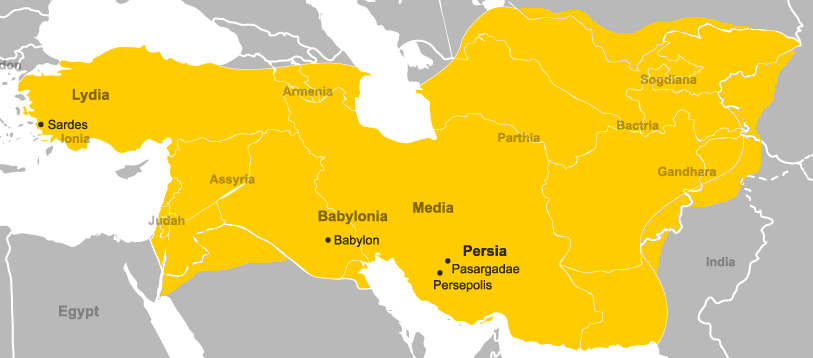 The Achaemenid Empire during the reign of Cyrus the Great (superimposed on modern borders). Created by User:SG, released as GFDL. Based on an unfree map I found here.